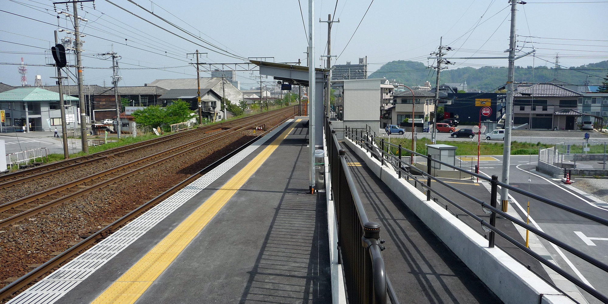 Hikone Serikawa Station platform,Ohmi Railway.